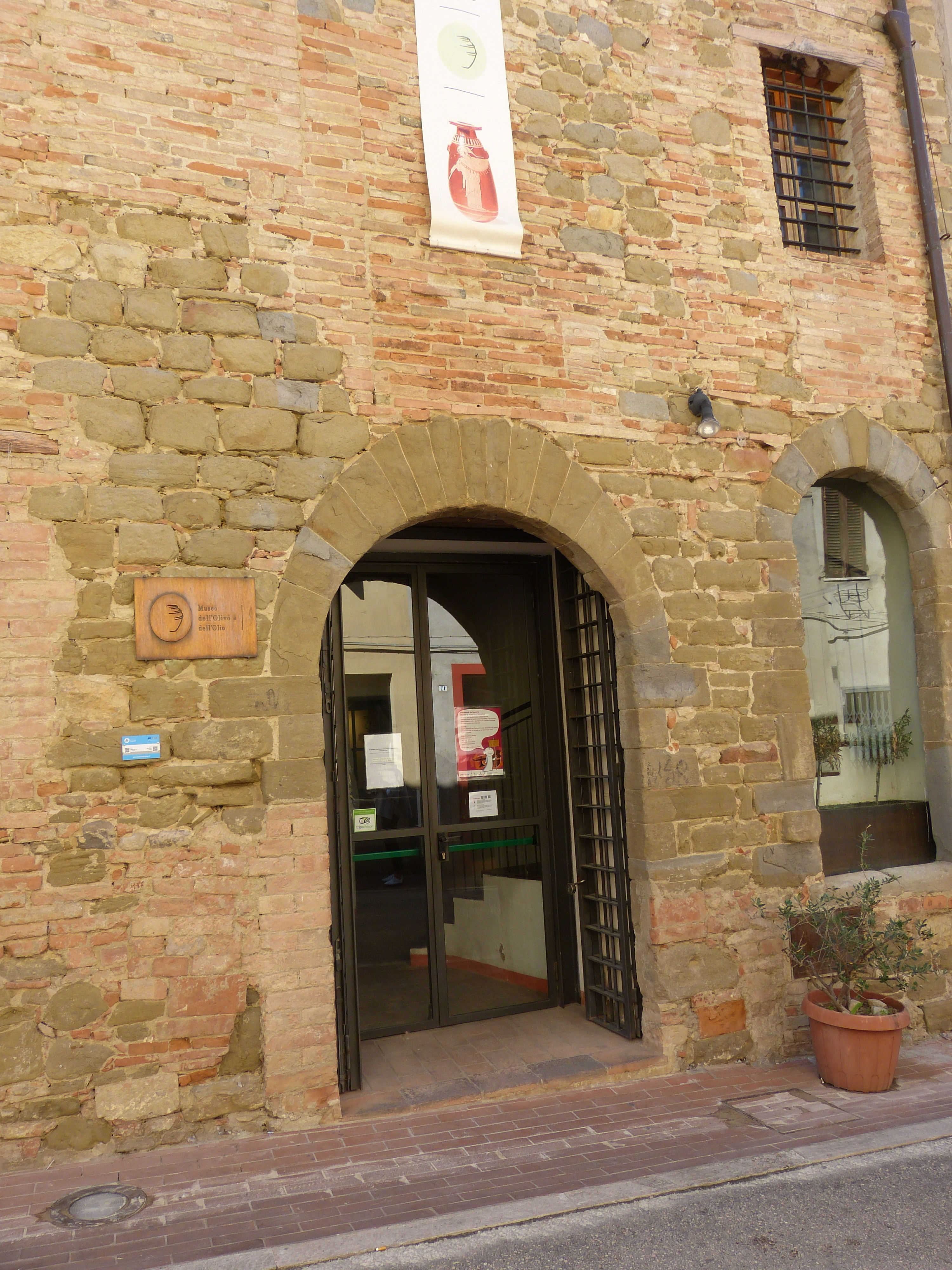 Torgiano ( Umbria ). Olive and oil Museum: Entrance.